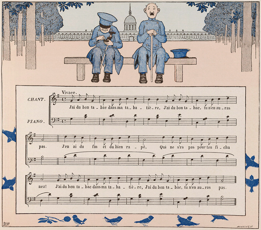 "J'ai du bon Tabac", sheet music with illustration from a French children's book Vieilles Chansons pour les Petits Enfants: Avec Accompagnements (Old Songs for Small Children with Accompaniments).